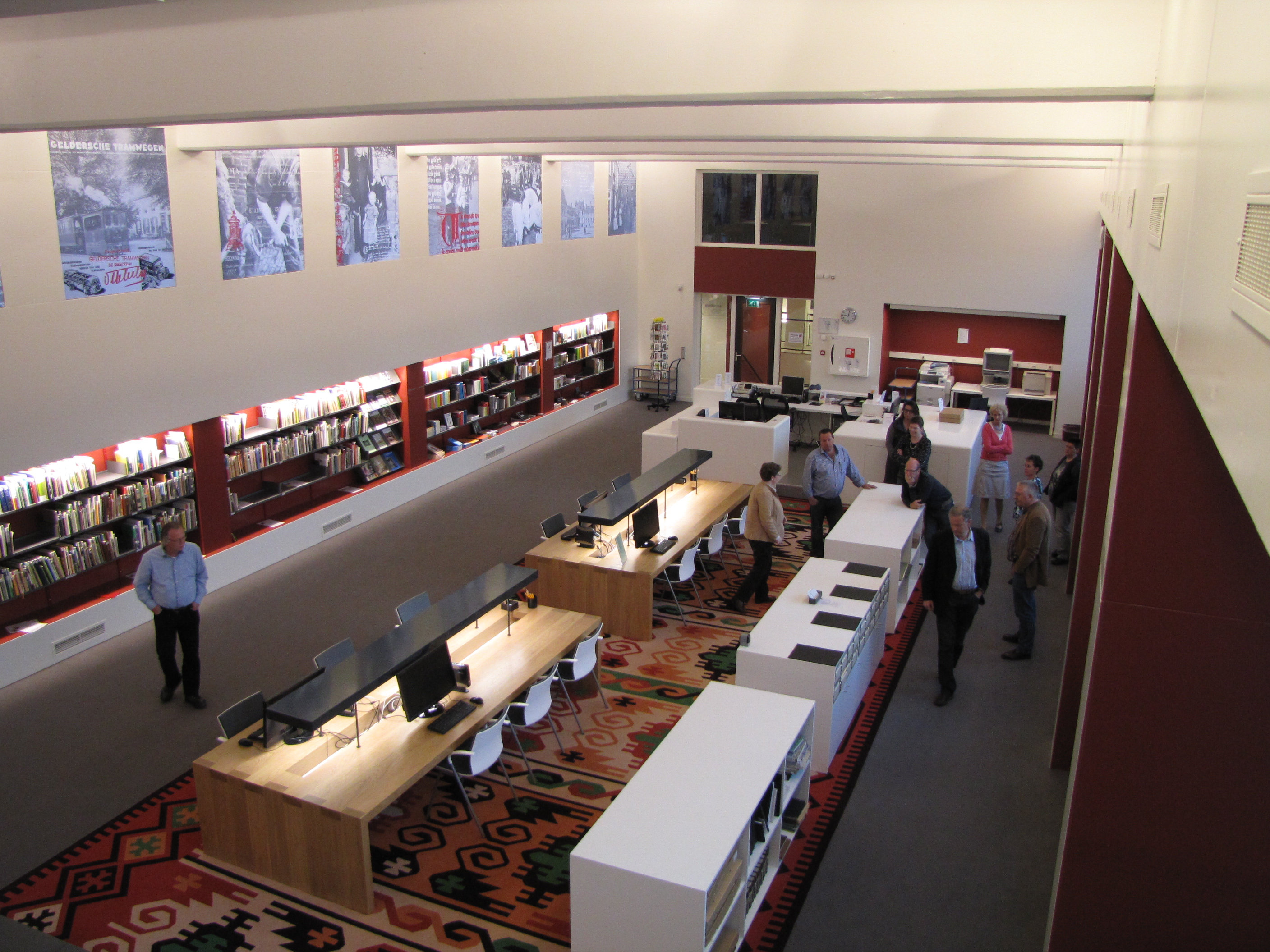 Erfgoedcentrum Achterhoek en Liemers (ECAL), regional archives in Doetinchem.